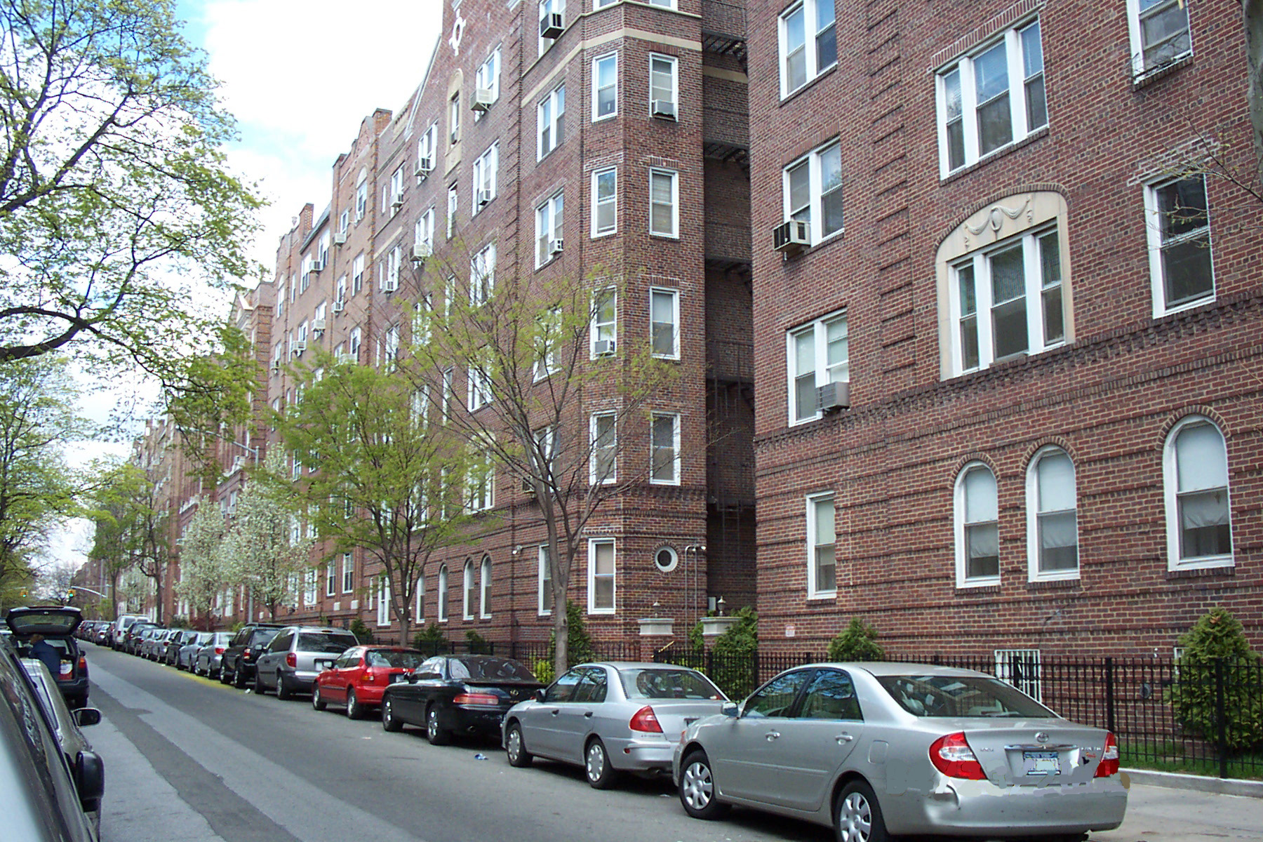 A typical residential street in Jackson Heights, Queens. April 24, 2005. Attribution 2.5 You are free: to copy, distribute, display, and perform the work to make derivative works to make commercial use of the work Under the following conditions: For any reuse or distribution, you must make clear to others the license terms of this work. Any of these conditions can be waived if you get permission from the copyright holder. Your fair use and other rights are in no way affected by the above.